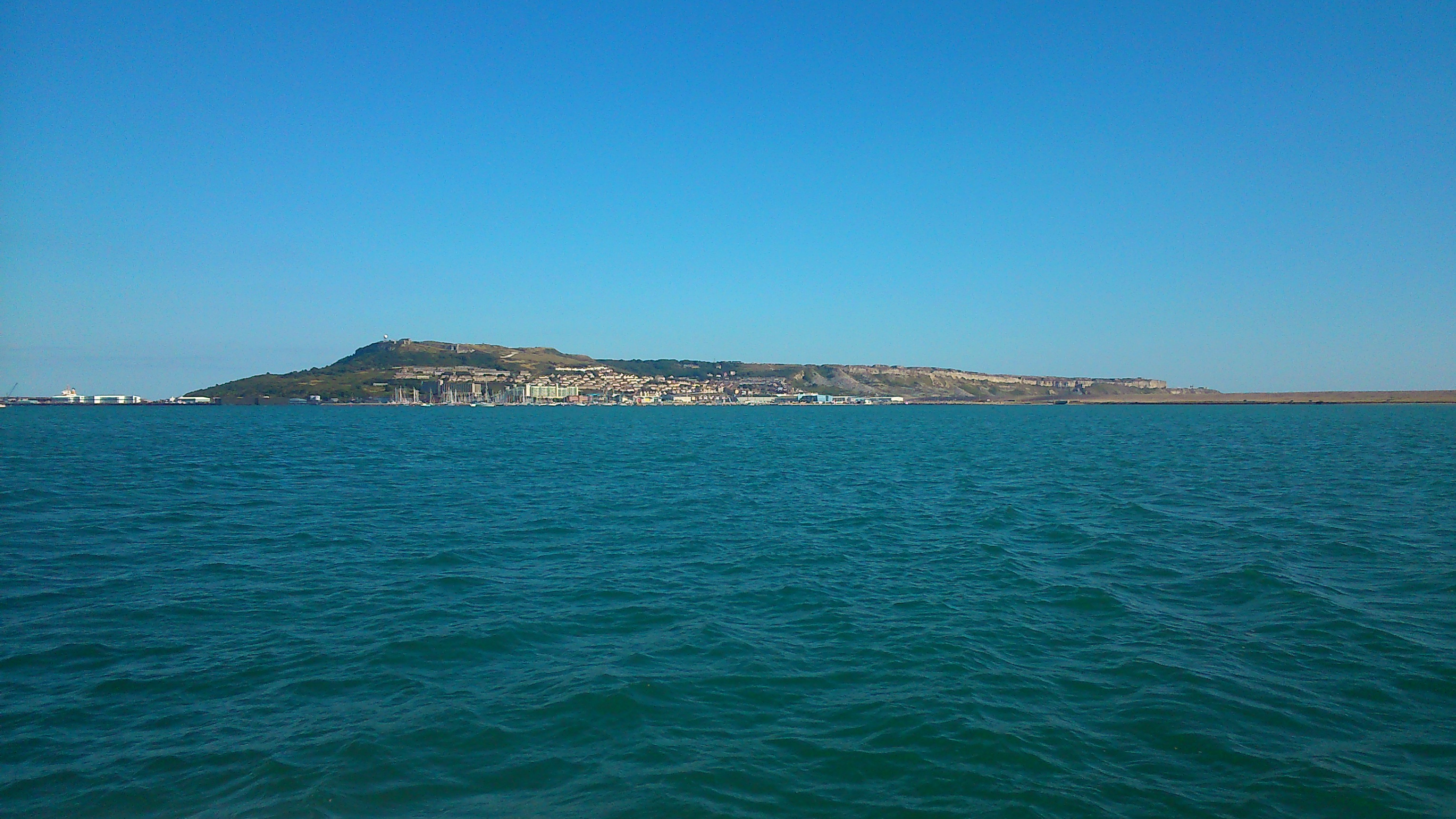 Isle of Portland from north